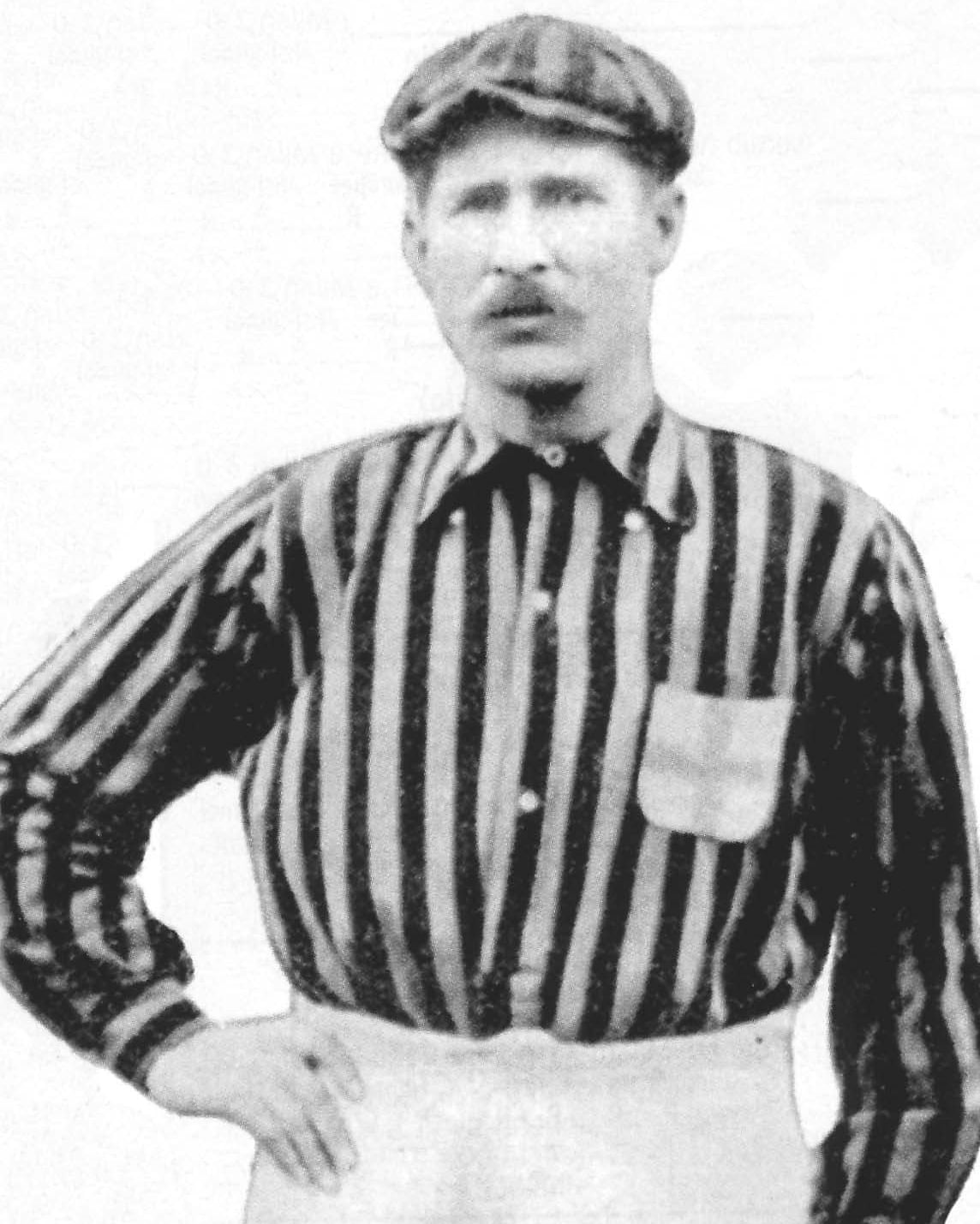 English football pioneer Herbert Kilpin, founder, footballer and manager of Milan Foot-Ball and Cricket Club in the 1910s.